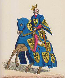 Guy, Count of Flanders